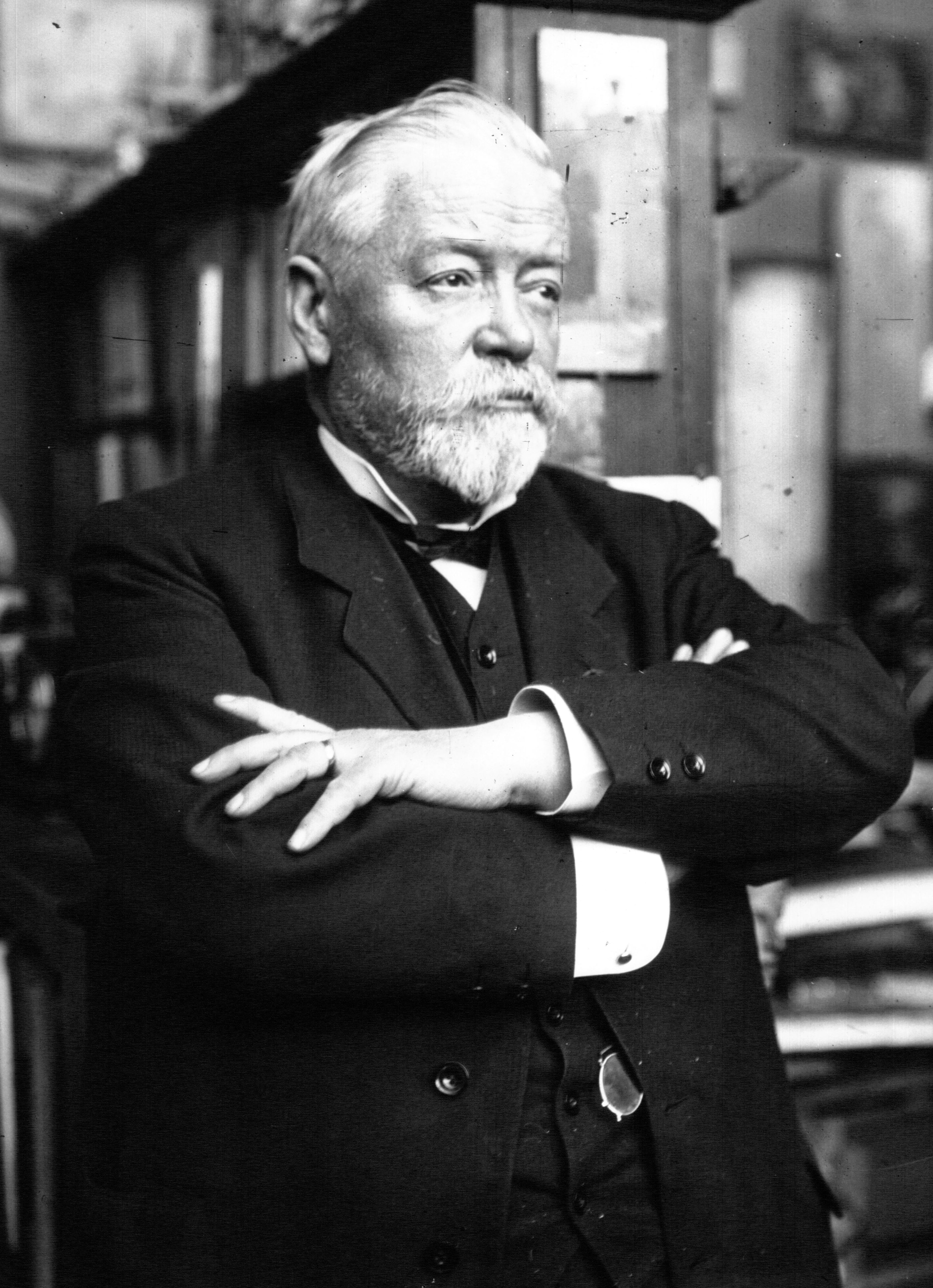 French painter and illustrator Luc-Olivier Merson (1846-1920).